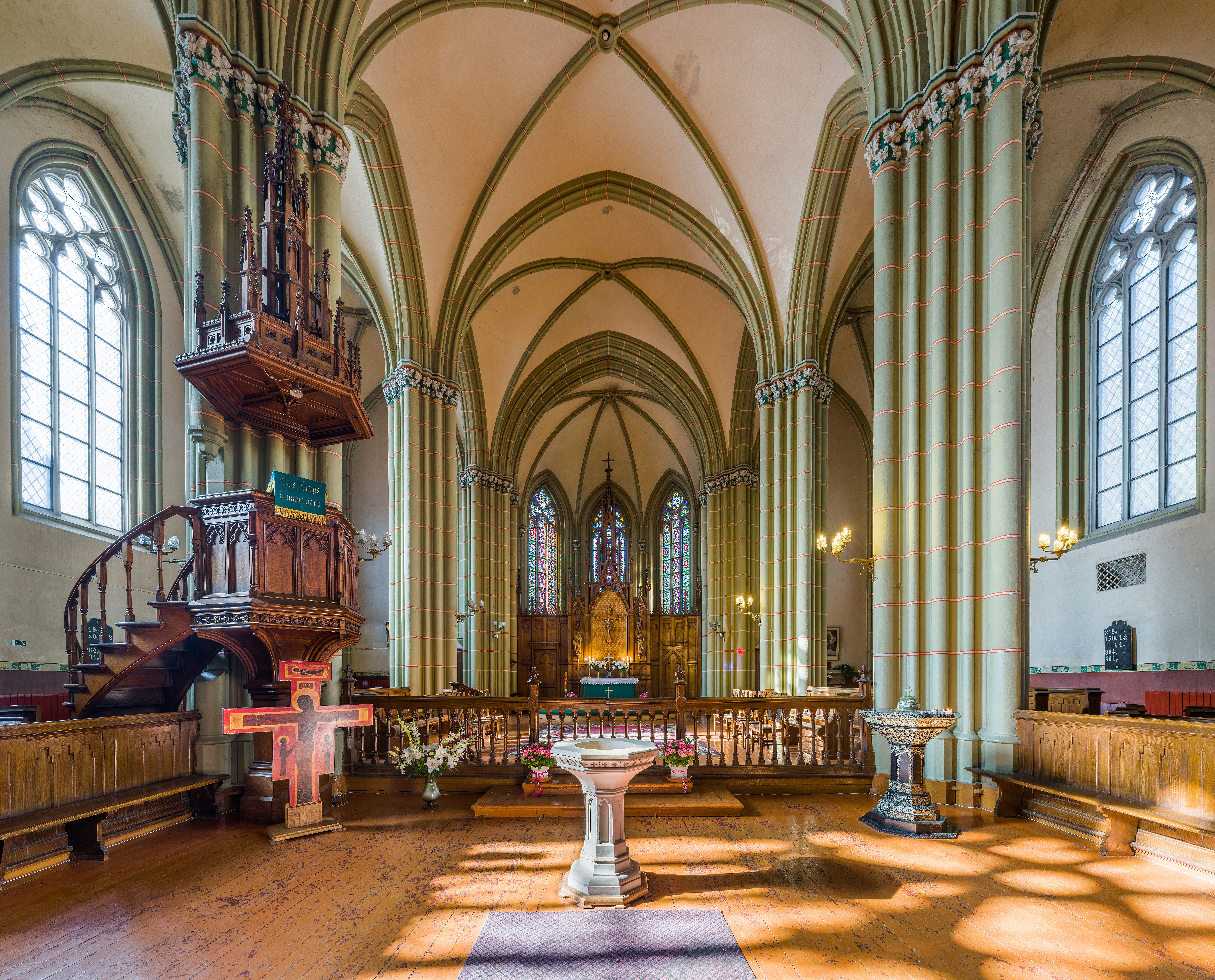 The interior of St. Gertrude Old Church, Riga, Latvia.